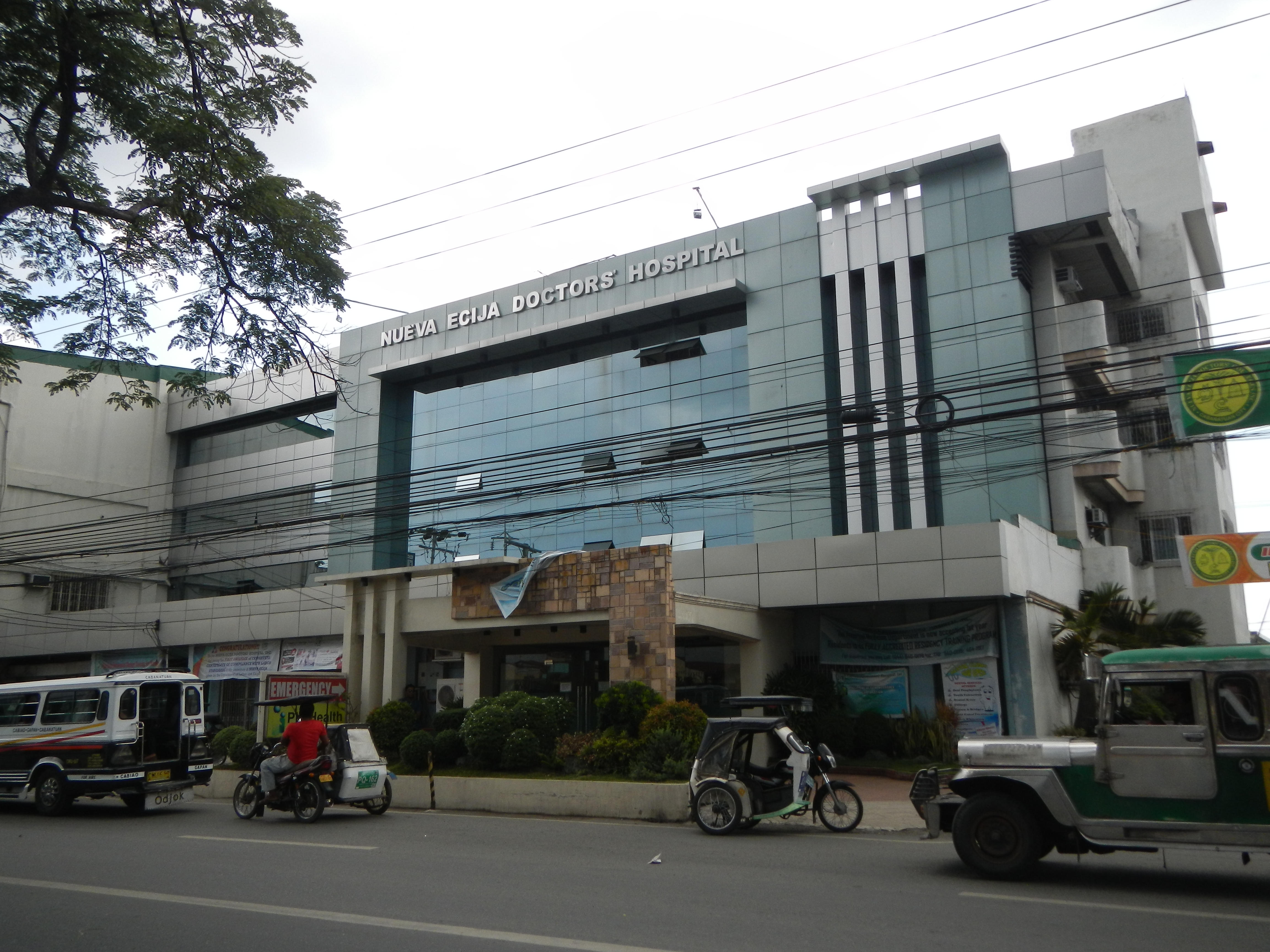 Nueva Ecija Doctors' Hospital in AH26, Barangay Sumacab Este, [ City, Nueva Ecija - H. Concepcion, Maharlika Highway or Pan-Philippine Highway in Cagayan Valley Road.